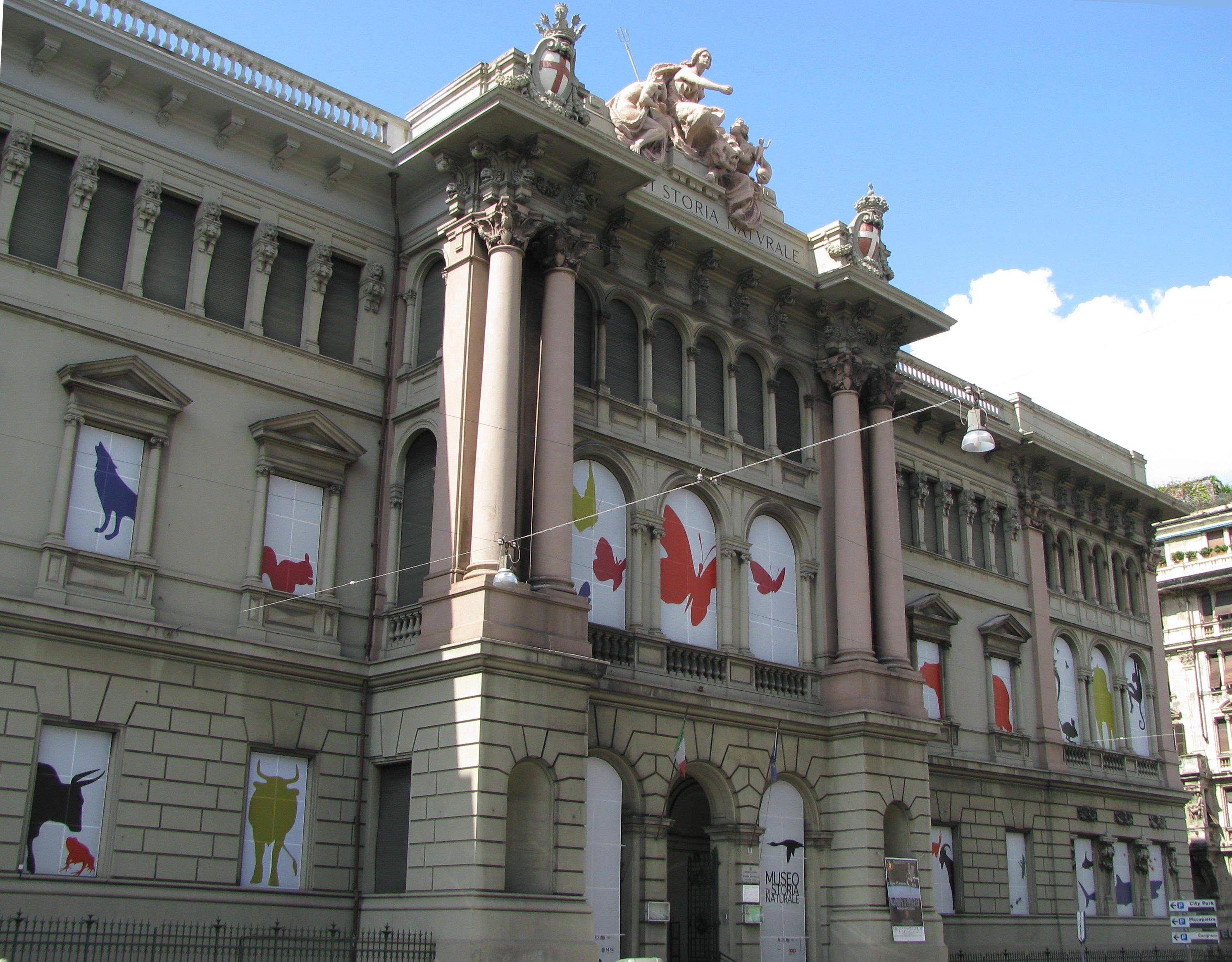 Museo di storia naturale Giacomo Doria in Genua